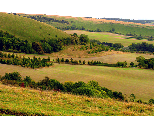 The South Western Slopes of Walbury Hill. This view of the slopes taken from the viewpoint at the long barrow is shows the slopes of the hill in the north western section of the square.